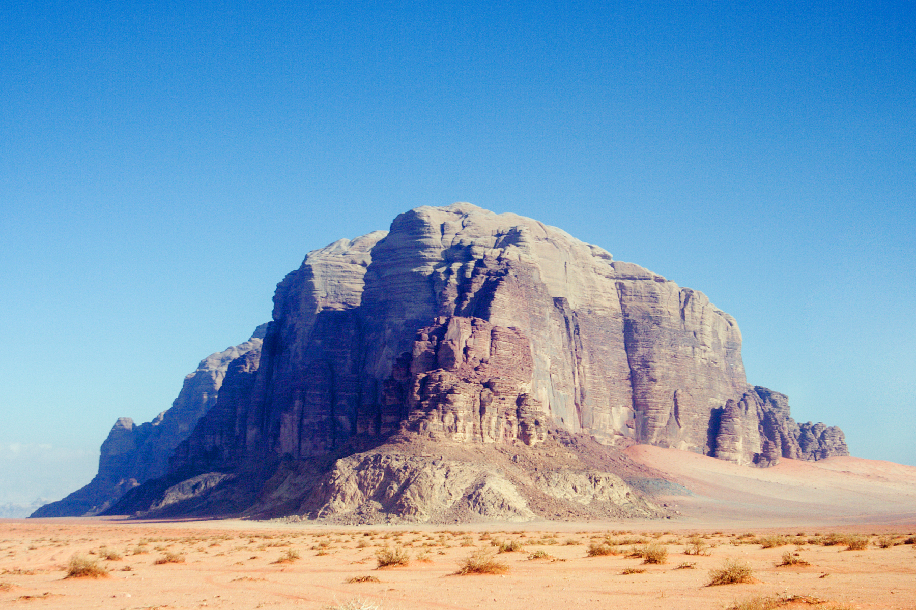 A sandstone monument rises from Jordan's Wadi Rum.